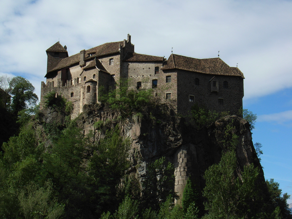 Exterior of Runkelstein Castle in South Tyrol.